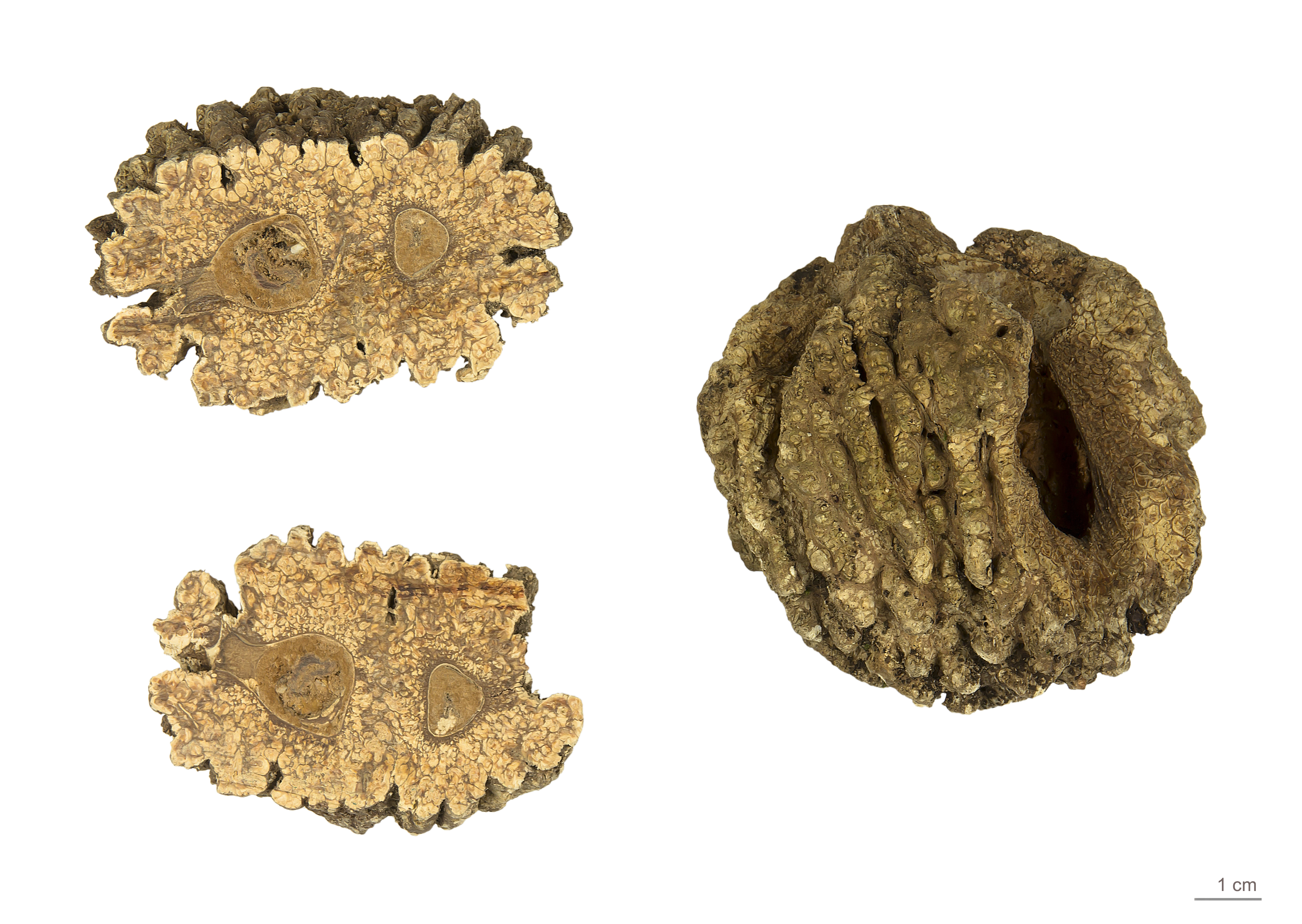 Parinari montana, , seeds